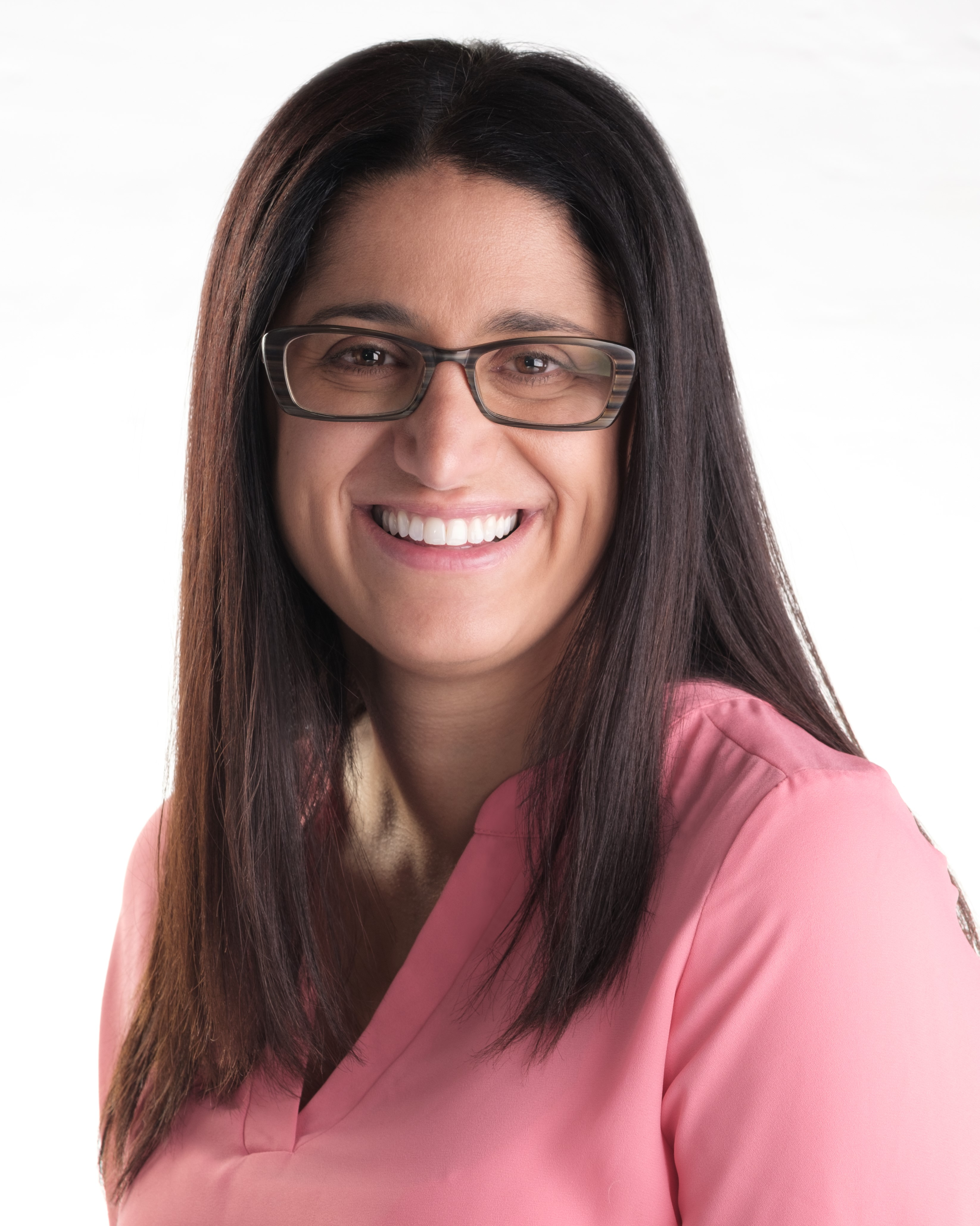 Hanna-Attisha Headshot smiling